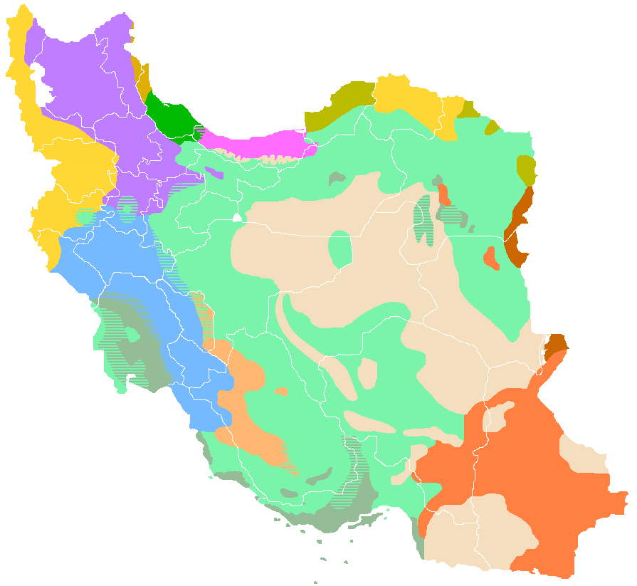 Map of ethnoreligious distribution in Iran.